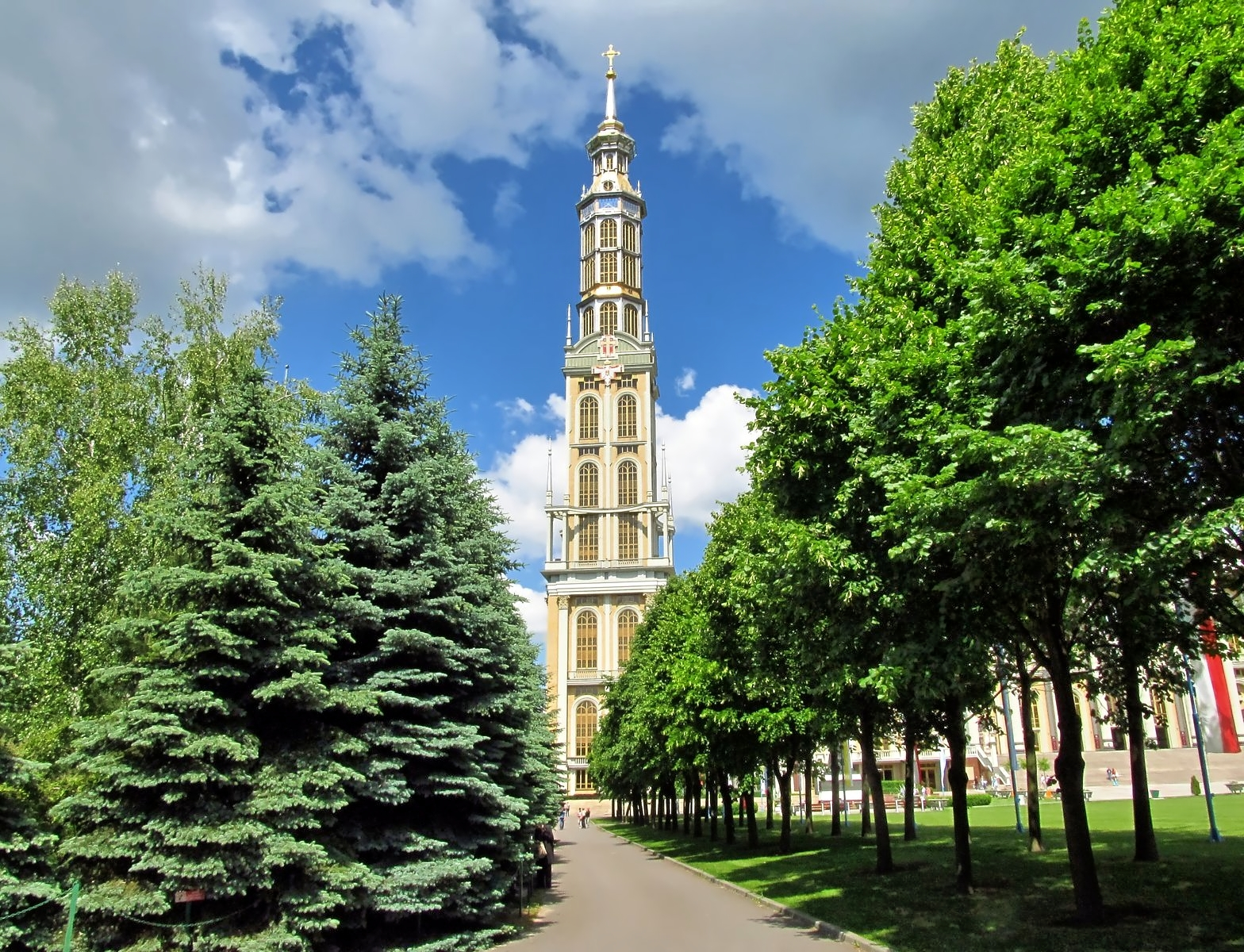 The tower of the Basilica - view from the alley south